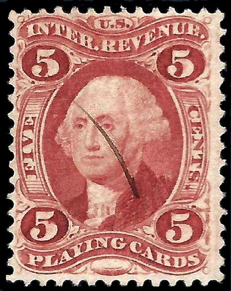 Image of Playing cards tax stamp, Washington 5c, issue of 1868